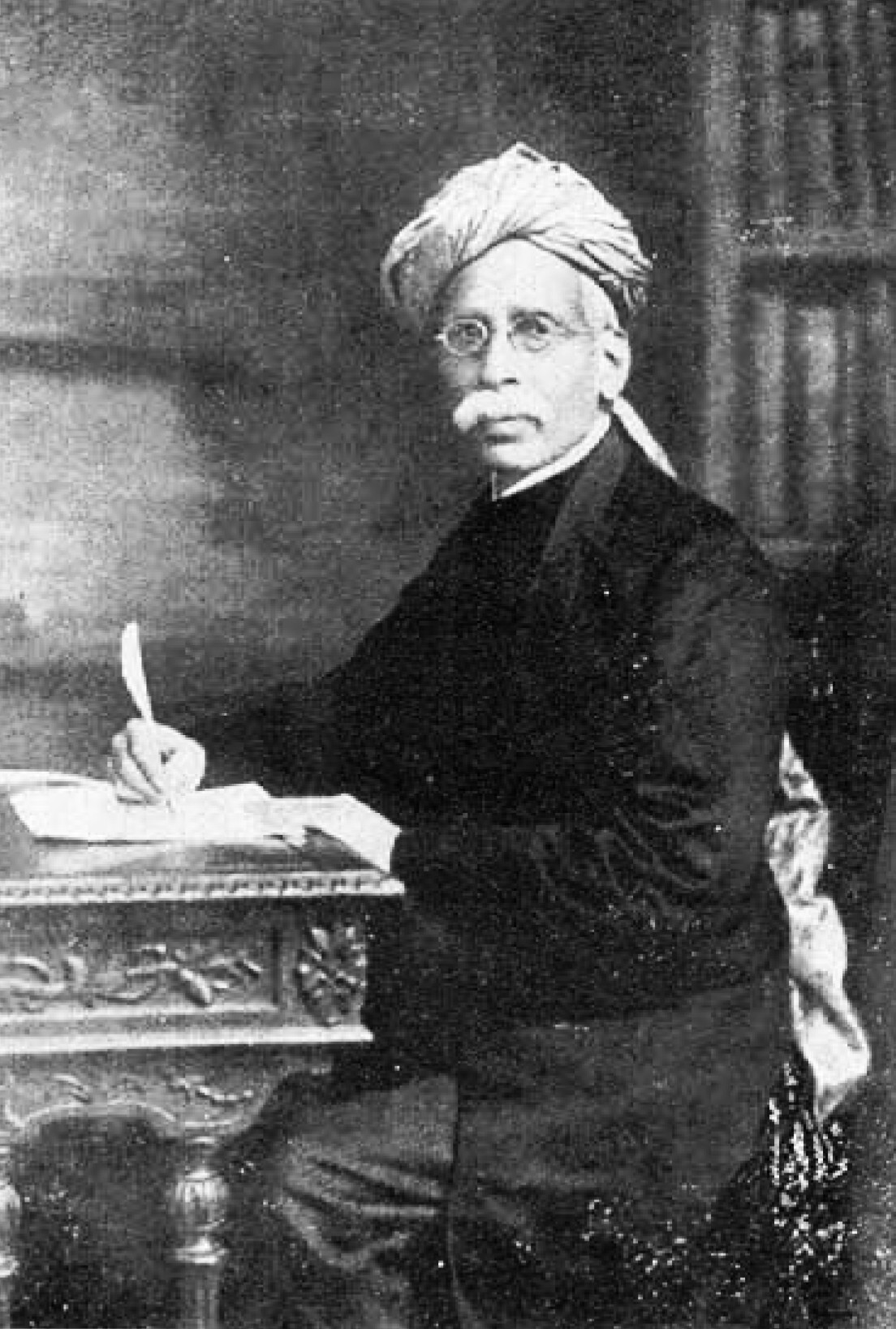 Madhusudan Das's photograph. Acquired from Purnachandra Bhashakosha.